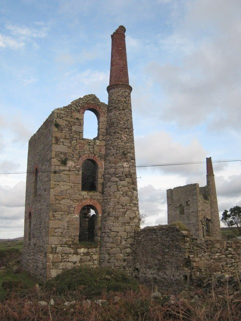 Engine houses at Wheal Hearle, East Boscaswell Mine Whim and pump engine houses beside the B3318, both fairly intact at present but crumbling away in some areas. More details here